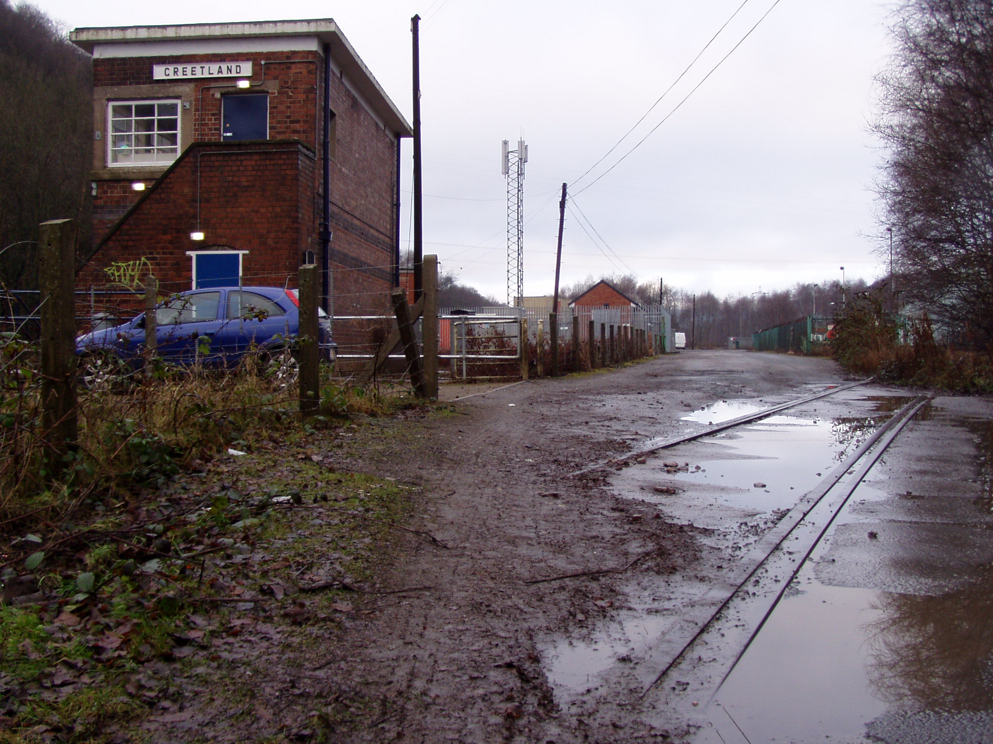 Greetland Signal box Greetland signal box at North Dean junction, former site of Greetland railway station. The main line is to the left of the signal box and the rails in the foreground are disconnected from the main line. They formerly served an oil terminal to the right of the picture.